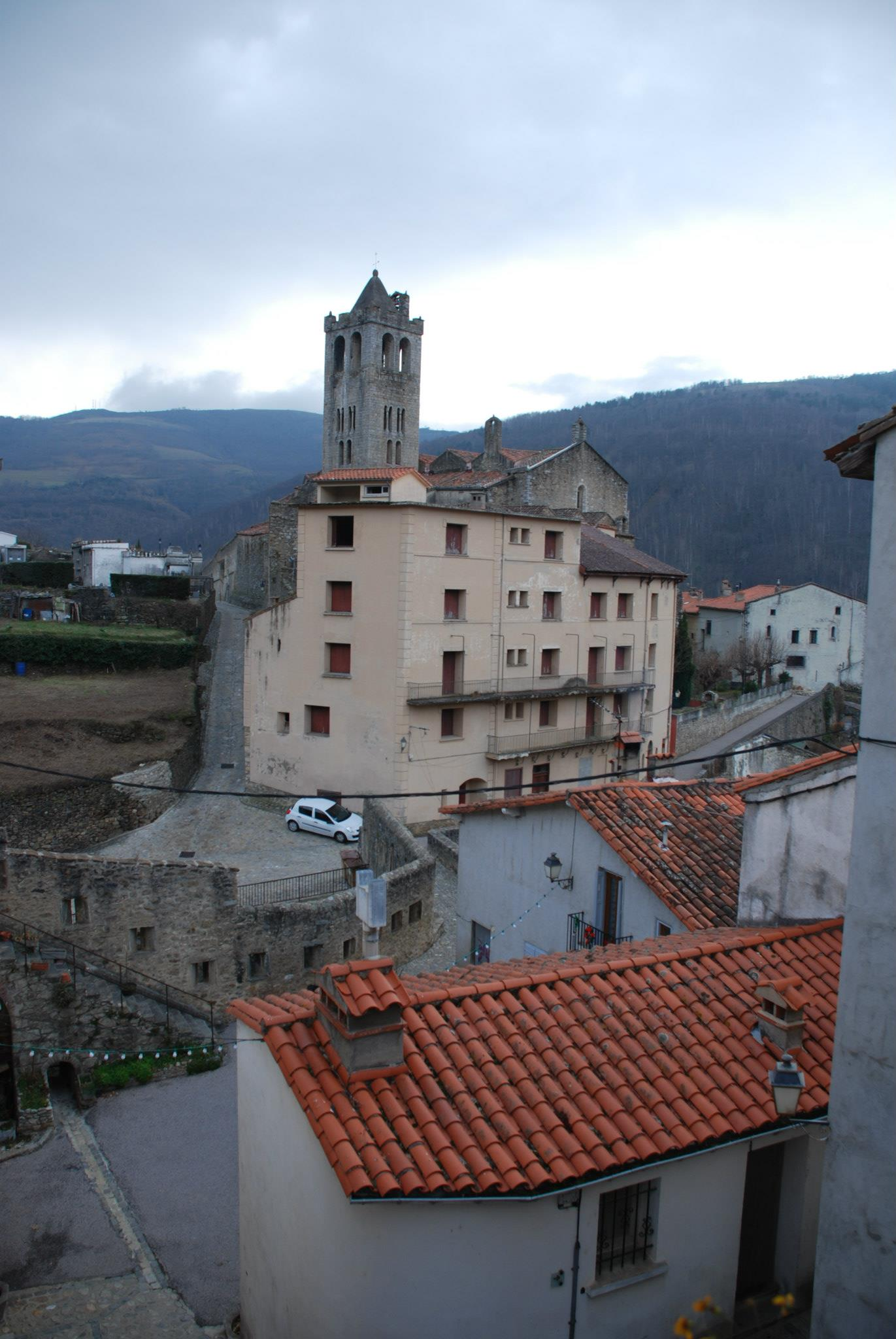 Church of Prats de Molló (Vallespir - Northest Catalonia)